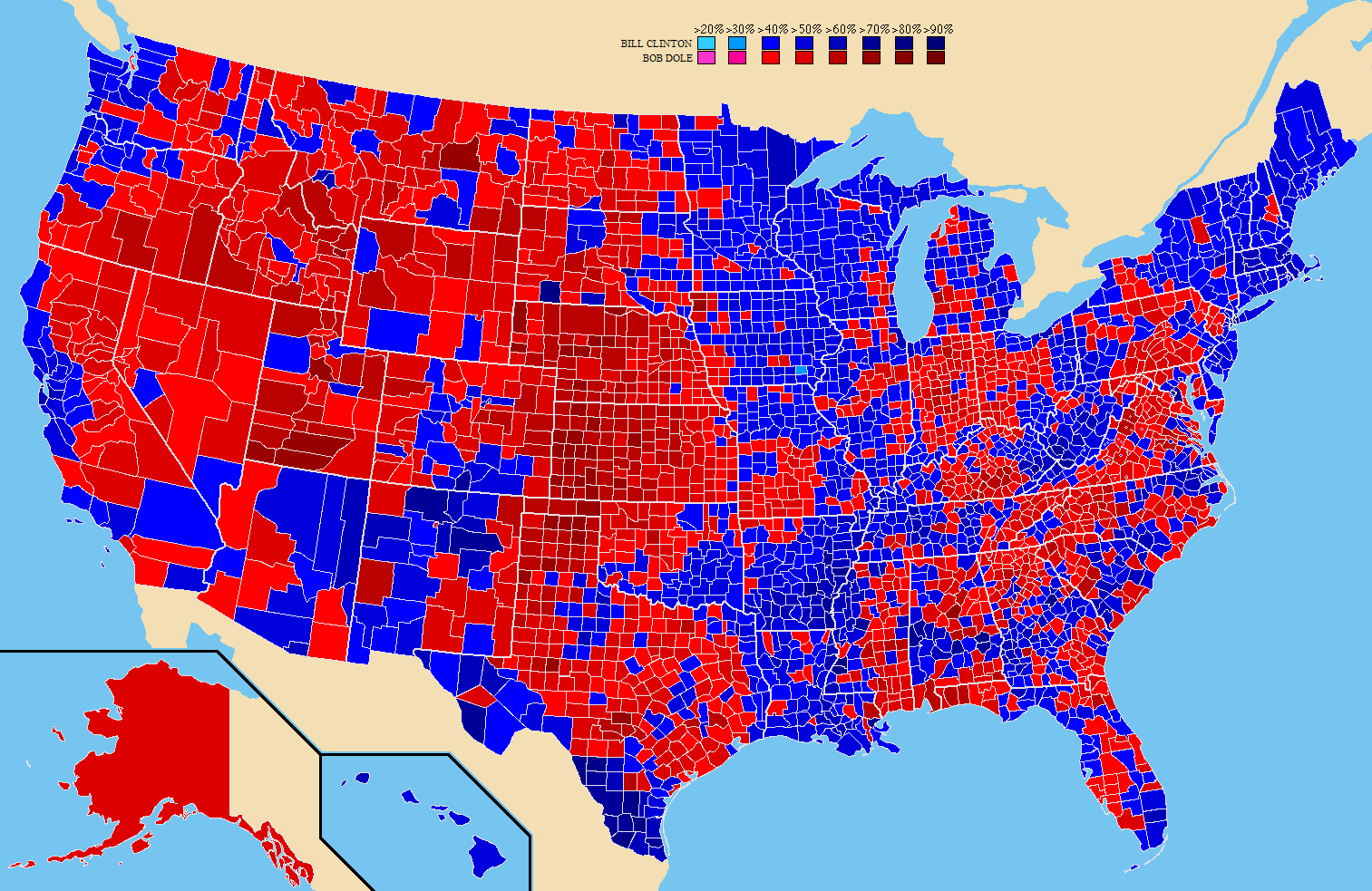 Map showing the results by county of the 1996 United States presidential election specifically identifying the percentage recieved by the winning candidate in each county.